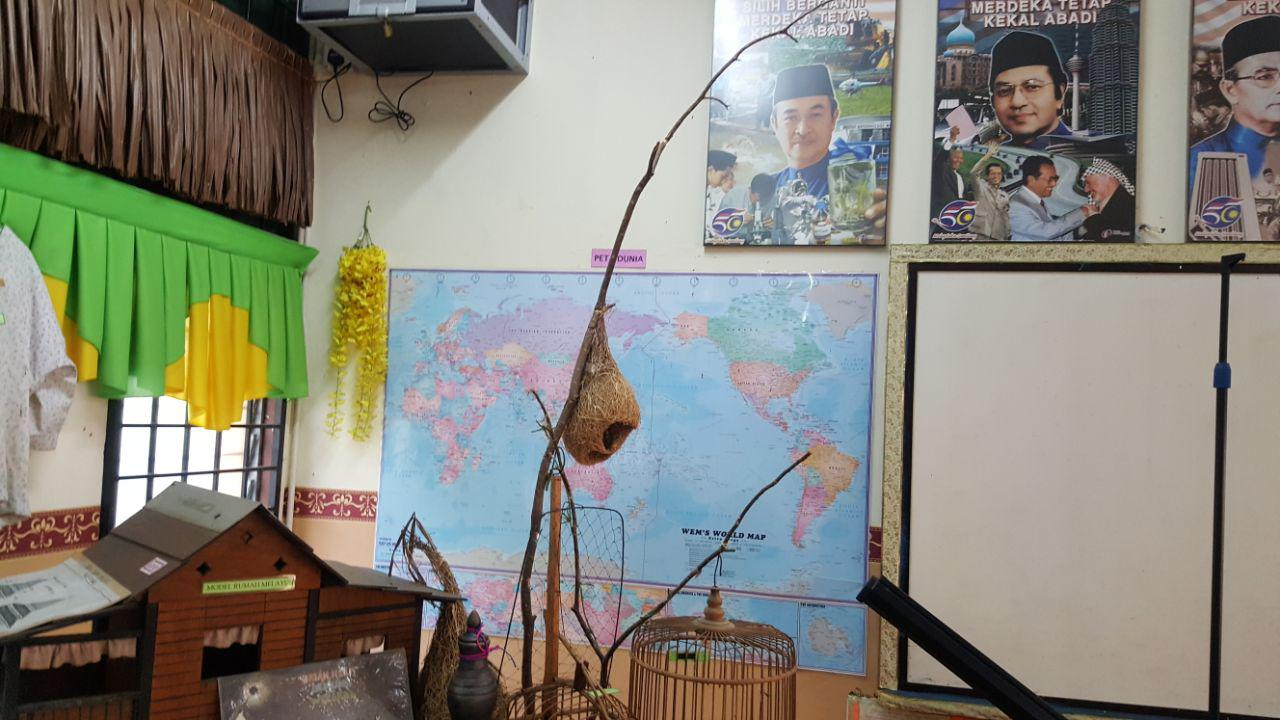 antik dan unik